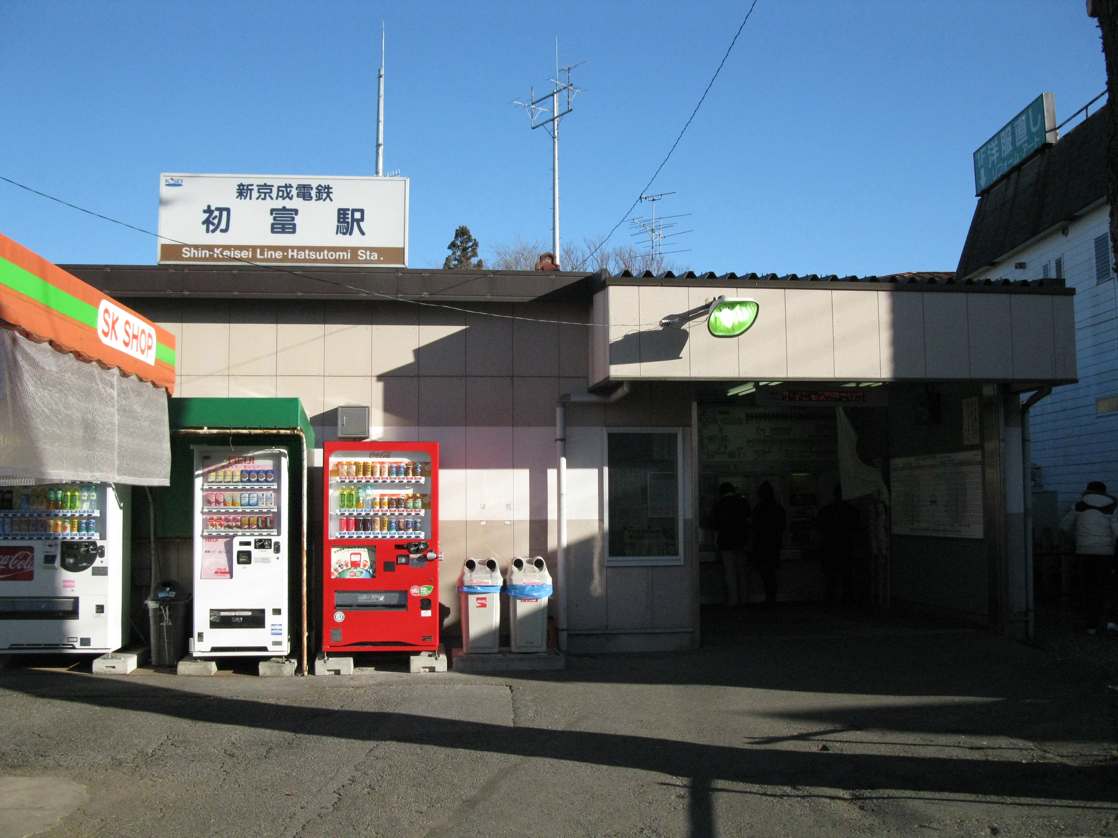 The entrance to Hatsutomi Station on the Shin-Keisei Electric Railway Shin-Keisei Line